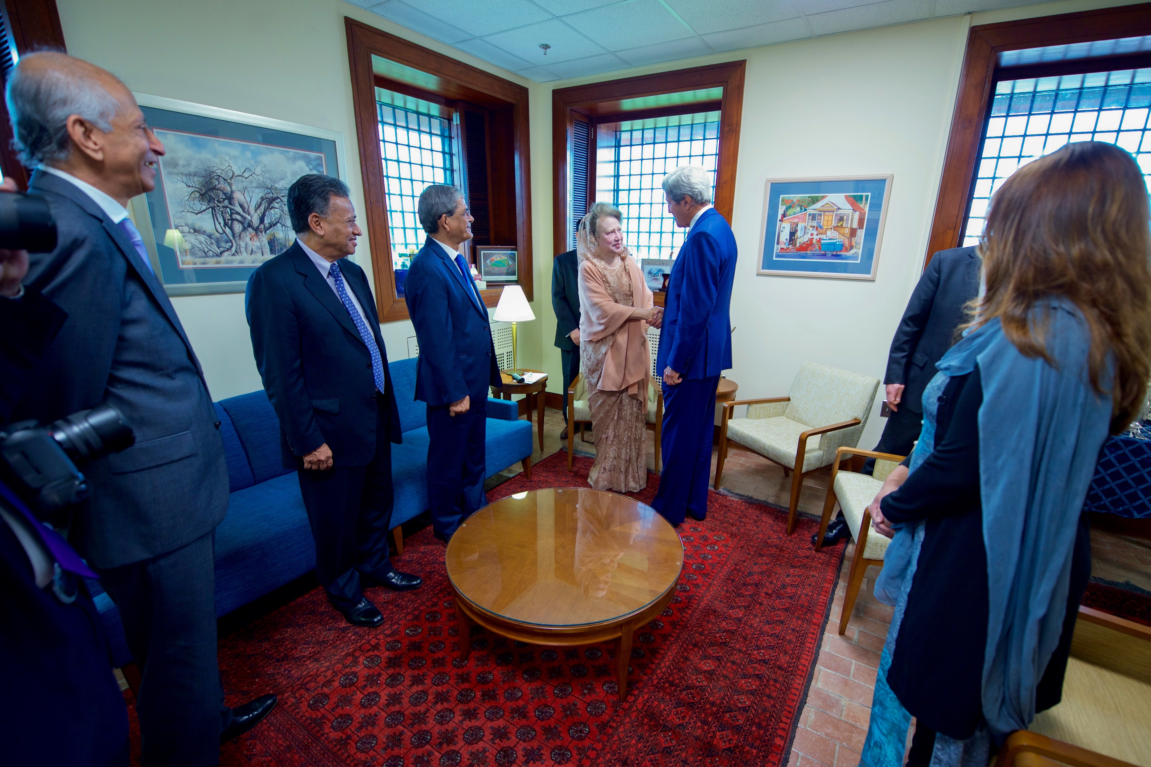 U.S. Secretary of State John Kerry greets government opposition leader Begum Khaleda Zia at U.S. Embassy Dhaka during a visit to Dhaka, Bangladesh, on August 29, 2016. [State Department Photo/ Public Domain]